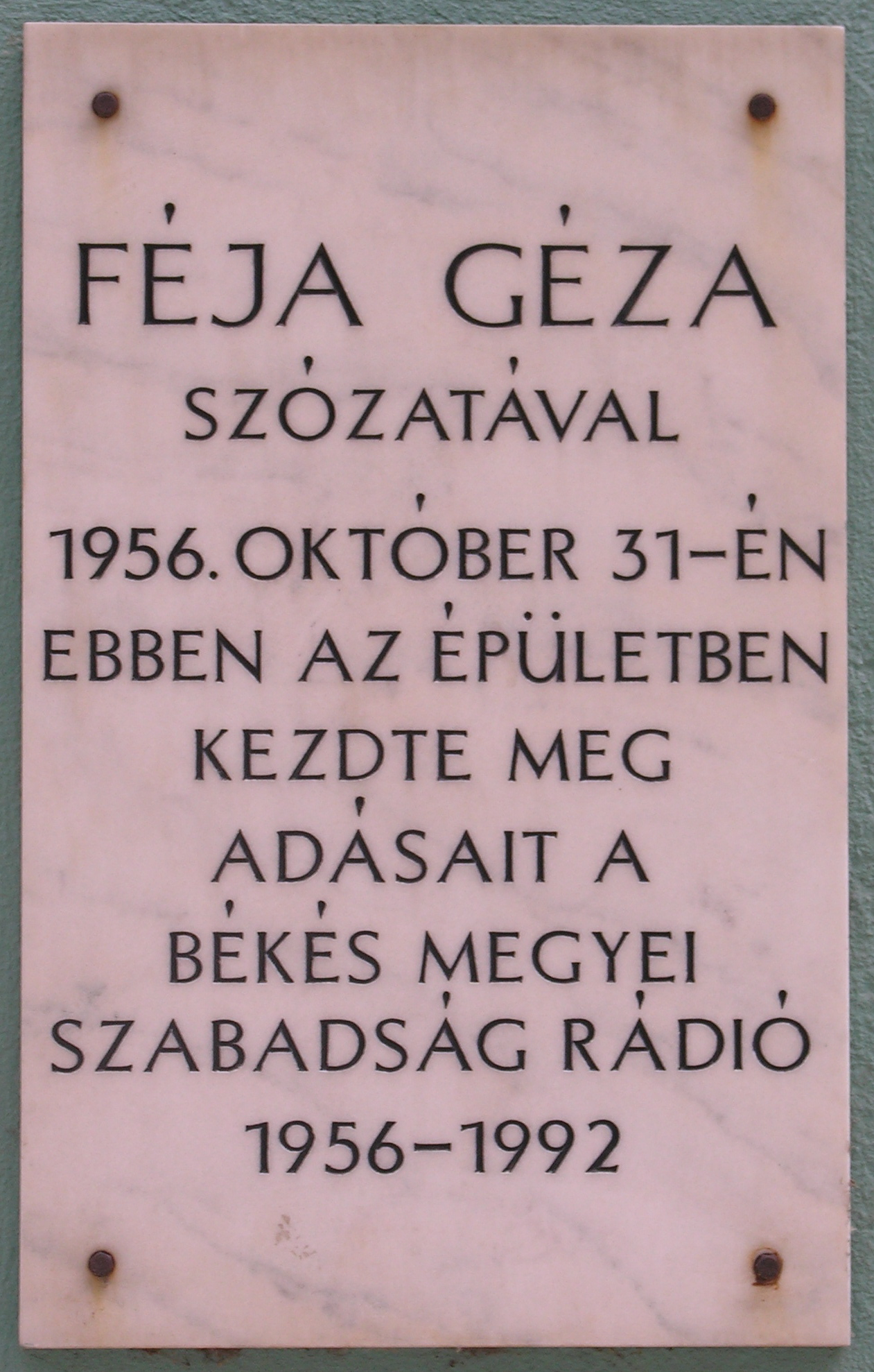 Plaque to Géza Féja in Békéscsaba (Szent István square 3.)